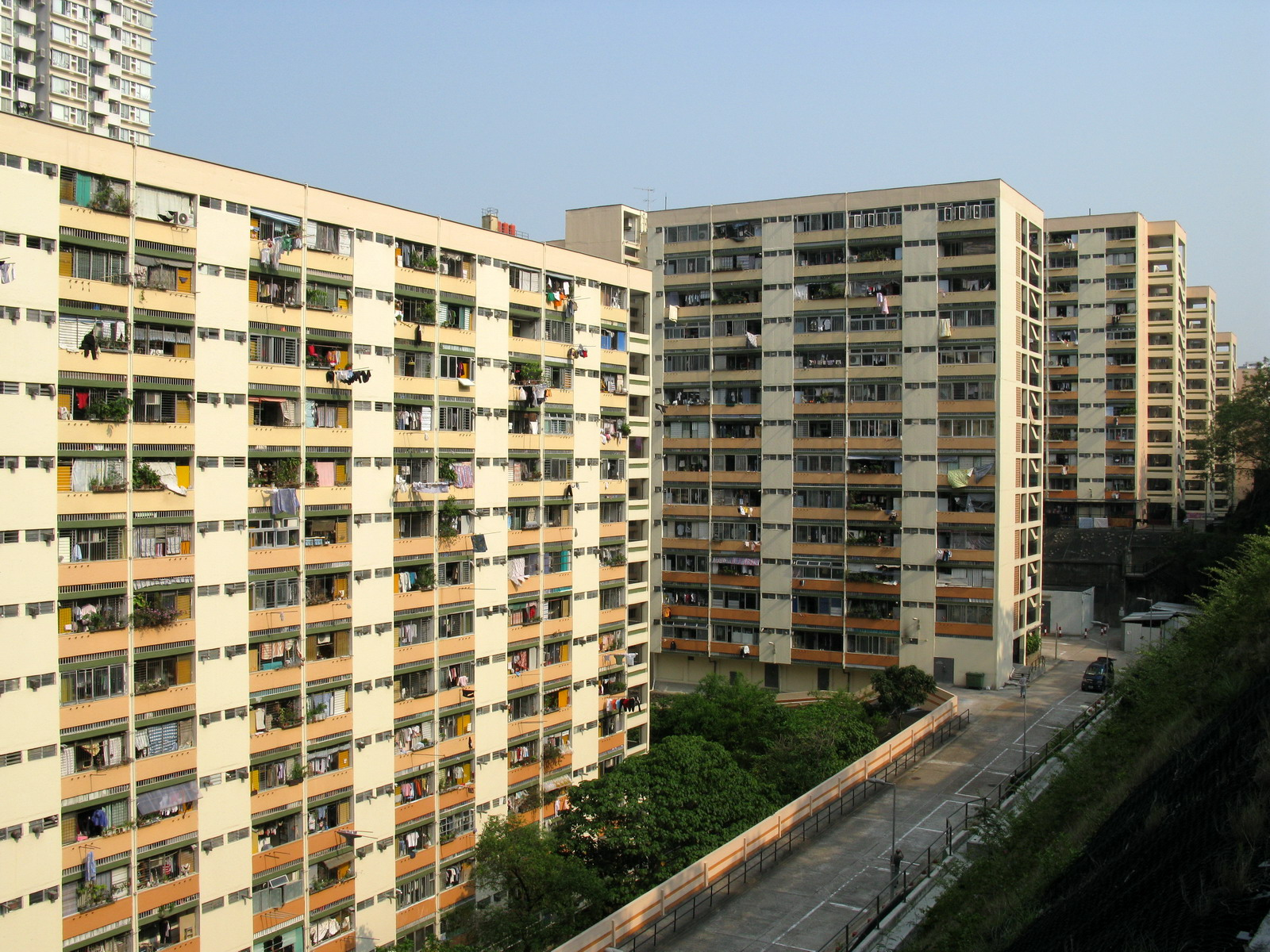 Lok Man Sun Chuen